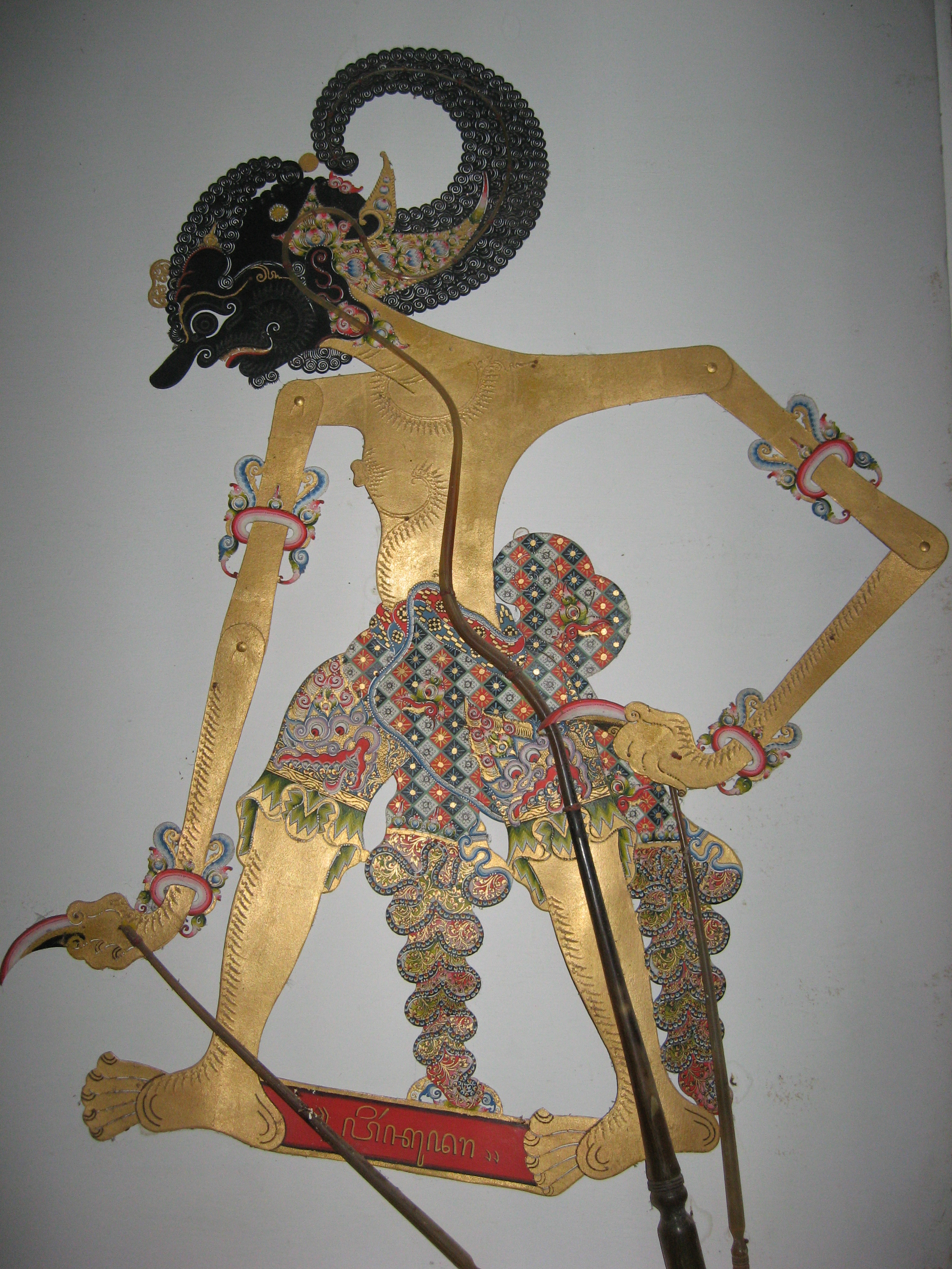 Javanese shadow puppet (wayang kulit) character Bima or Werkudara